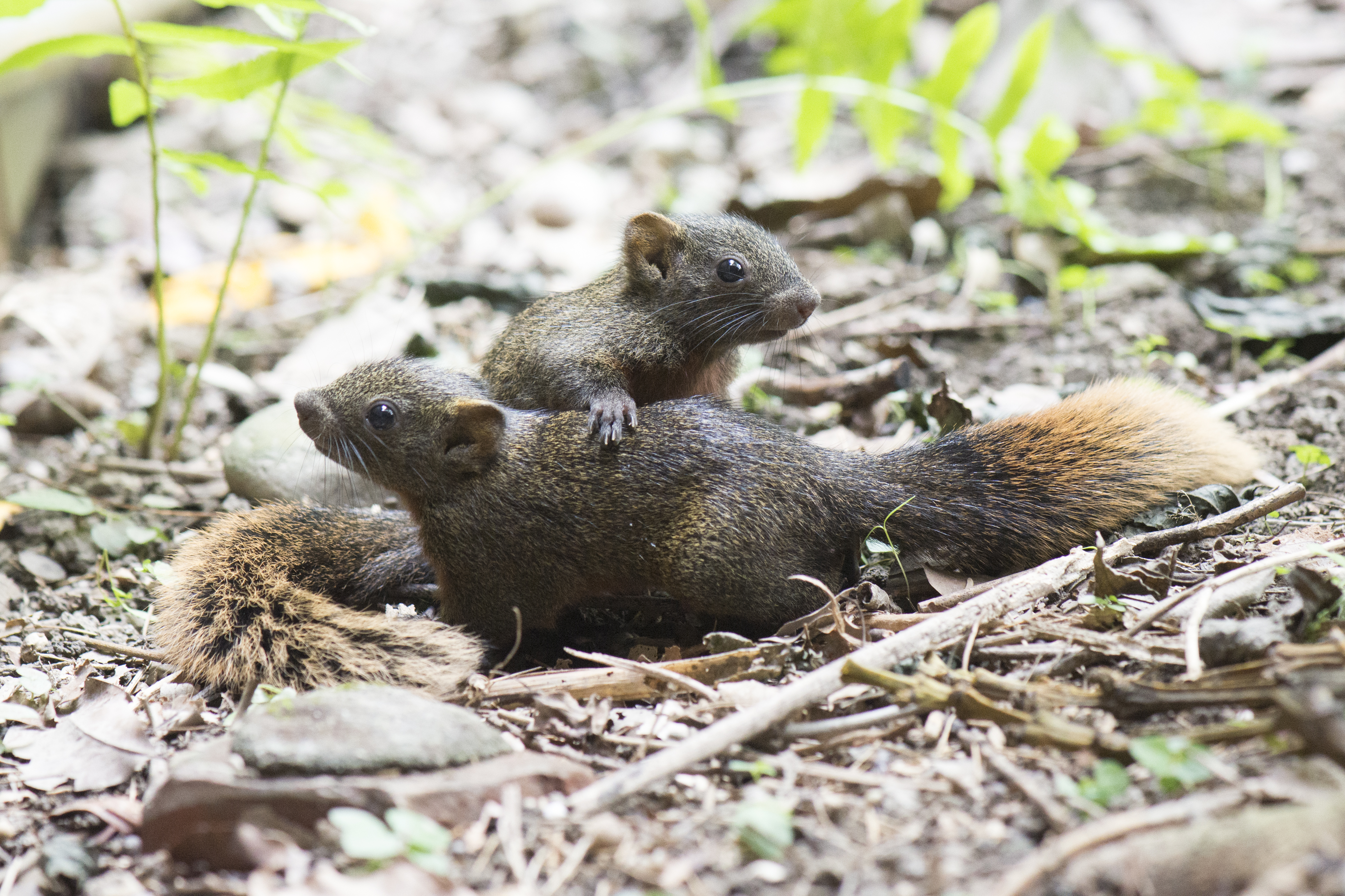 Callosciurus erythraeus thaiwanensis (Pallas, 1779) 赤腹松鼠